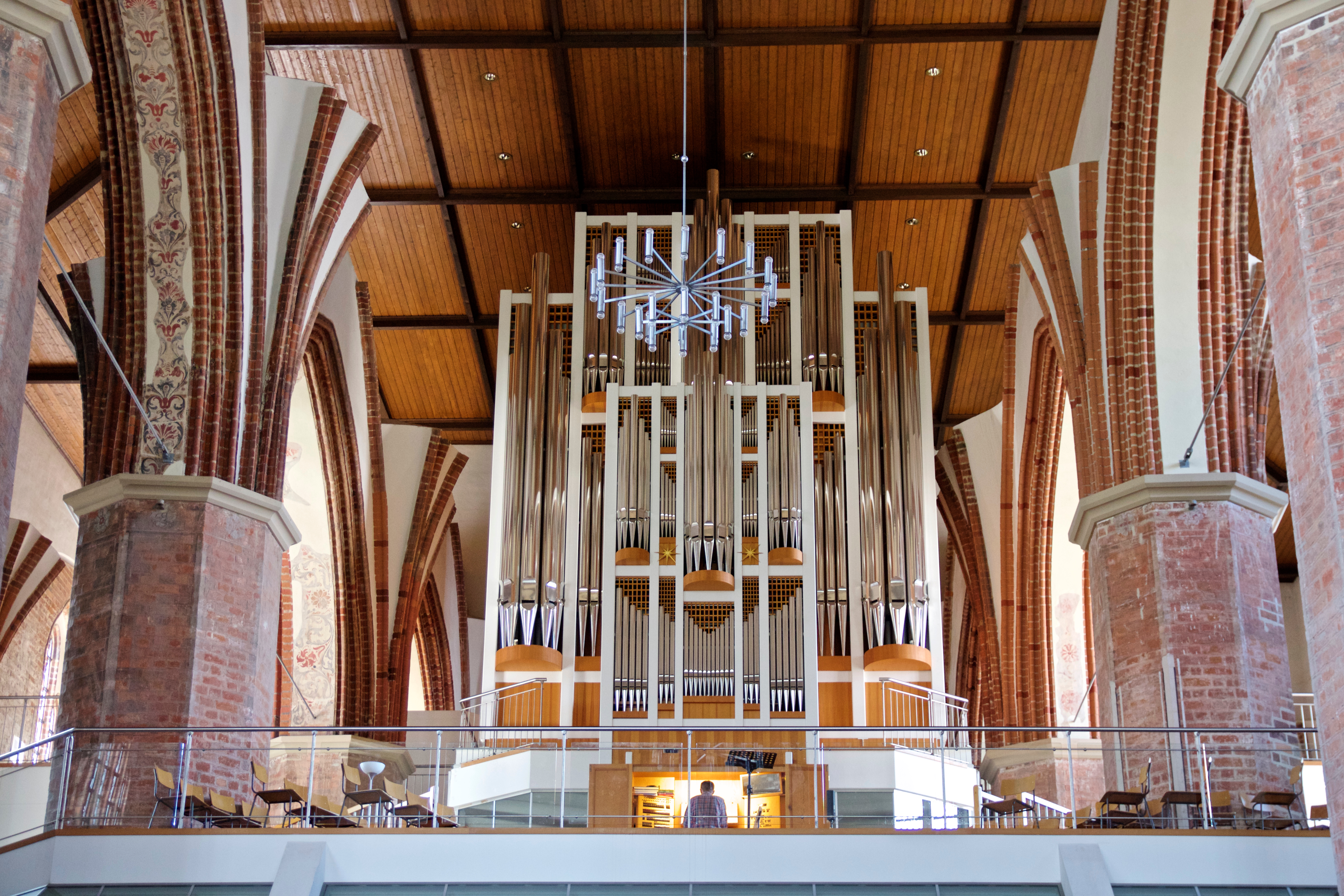 Schuke organ of Fürstenwalde Cathedral (Germany), originally built for St Thomas Church (Leipzig) in 1967, rebuilt and transferred to Fürstenwalde in 2005